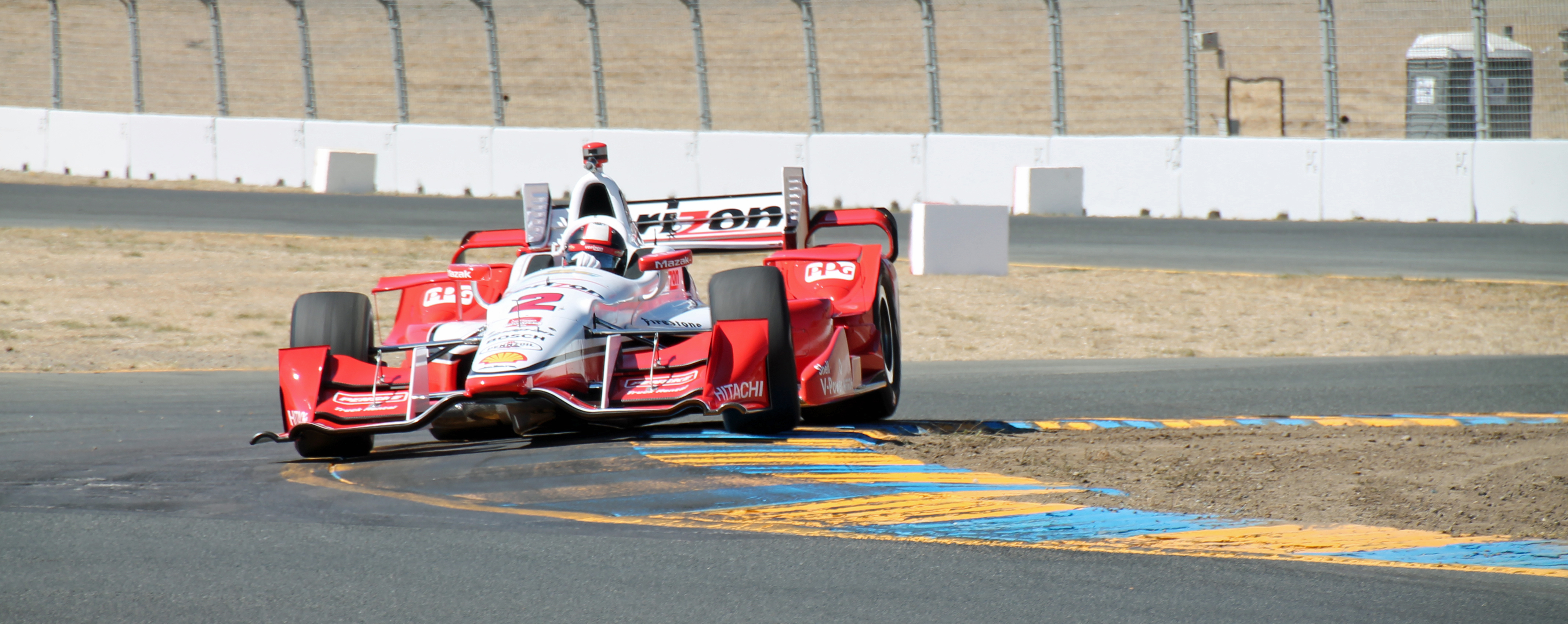 Juan Pablo Montoya during practice at the 2015 GoPro Grand Prix of Sonoma